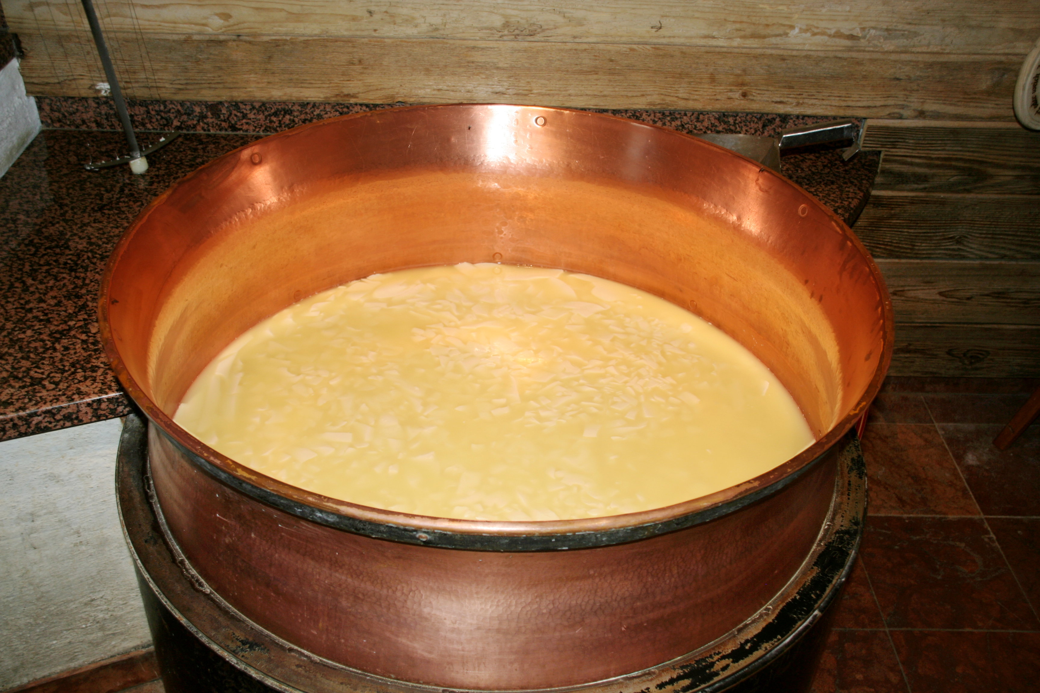 Production of cheese.